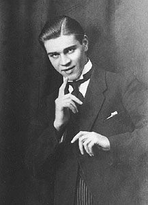 Photograph of Estonian composer and choir conductor Evald Aav (1900-1939) in 1924.